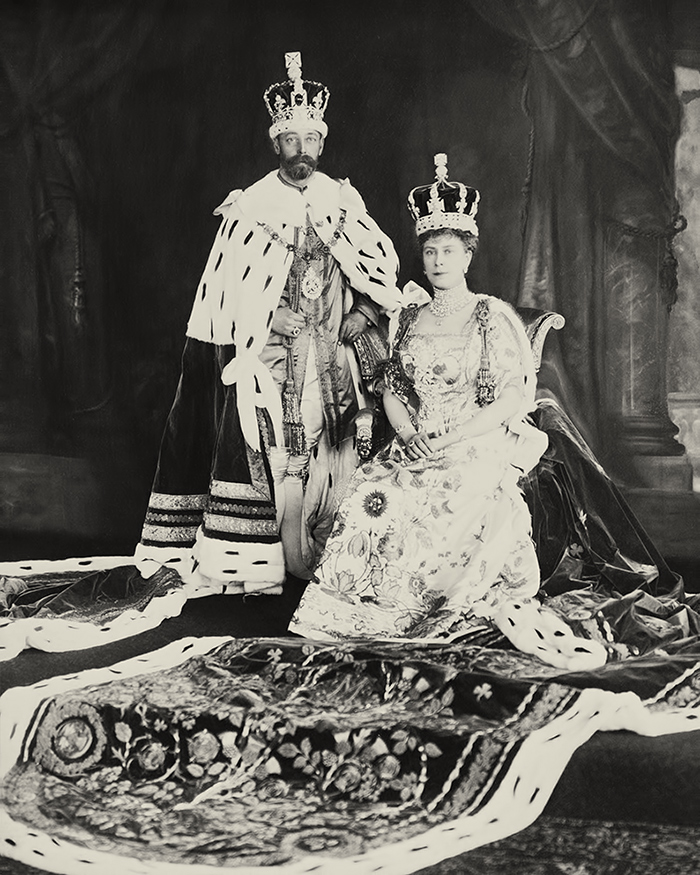 King George V and Queen Mary in their crowns and coronation robes.